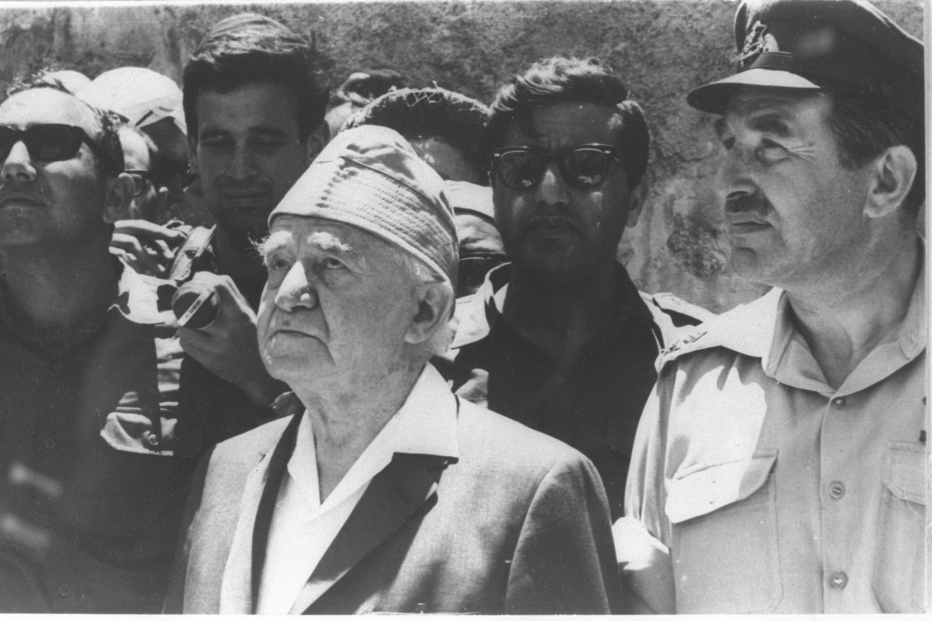 Colonel Chaim Herzog (r) and David Ben Gurion (centre) at the Western Wall.